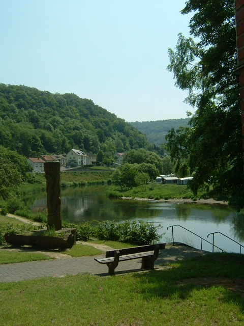 Southview of the bridge over the Sûre river on the border between Germany and Luxembourg.